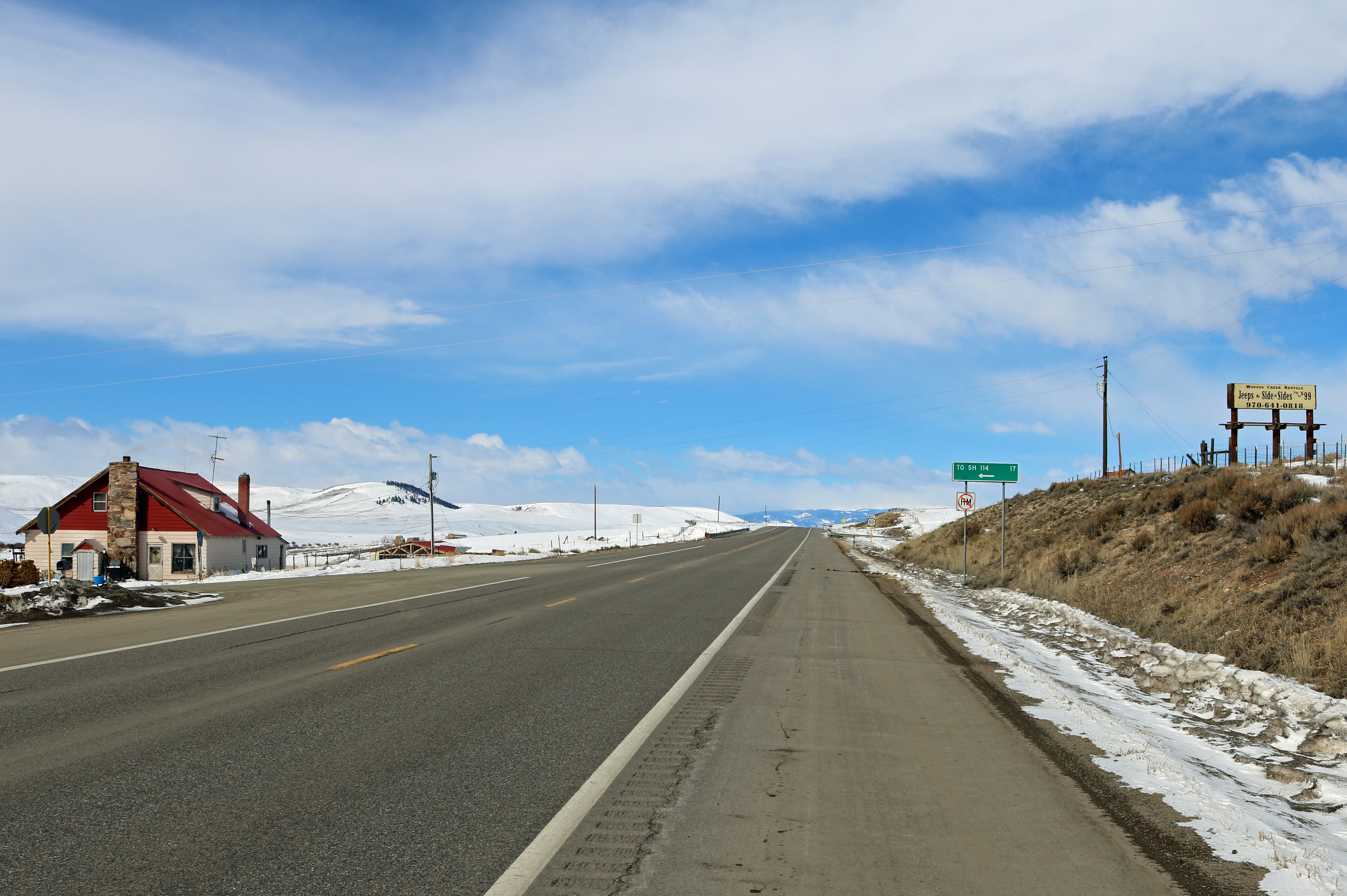 A view of Doyleville, Colorado. The view is looking west along U.S. Highway 50.